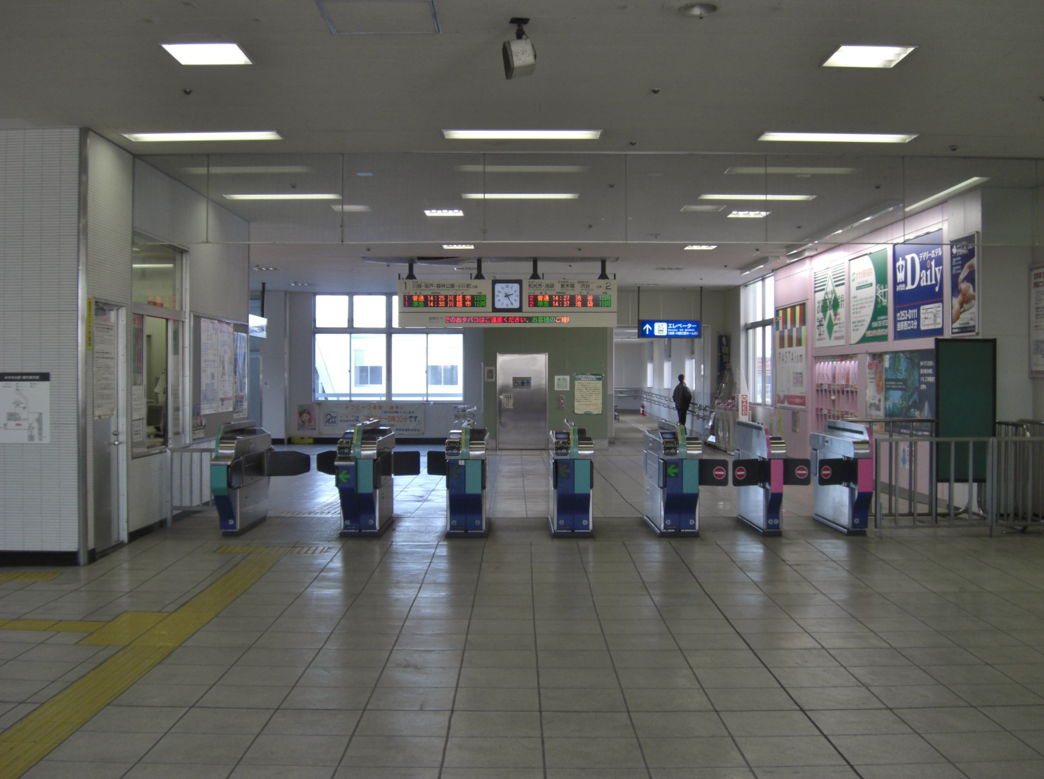 The ticket barriers at Mizuhodai Station on the Tobu Tojo Line in Saitama Prefecture, Japan